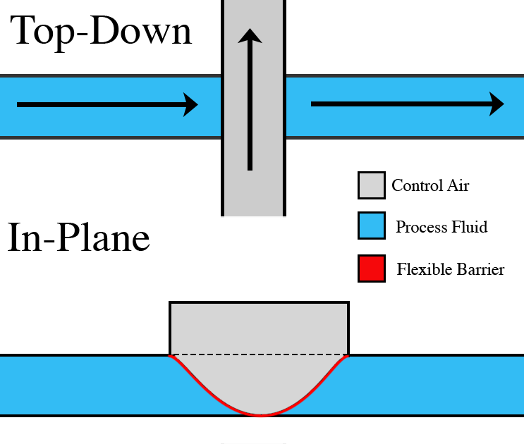 Schematic of Quake valve for controlling flow in a microfluidic channel